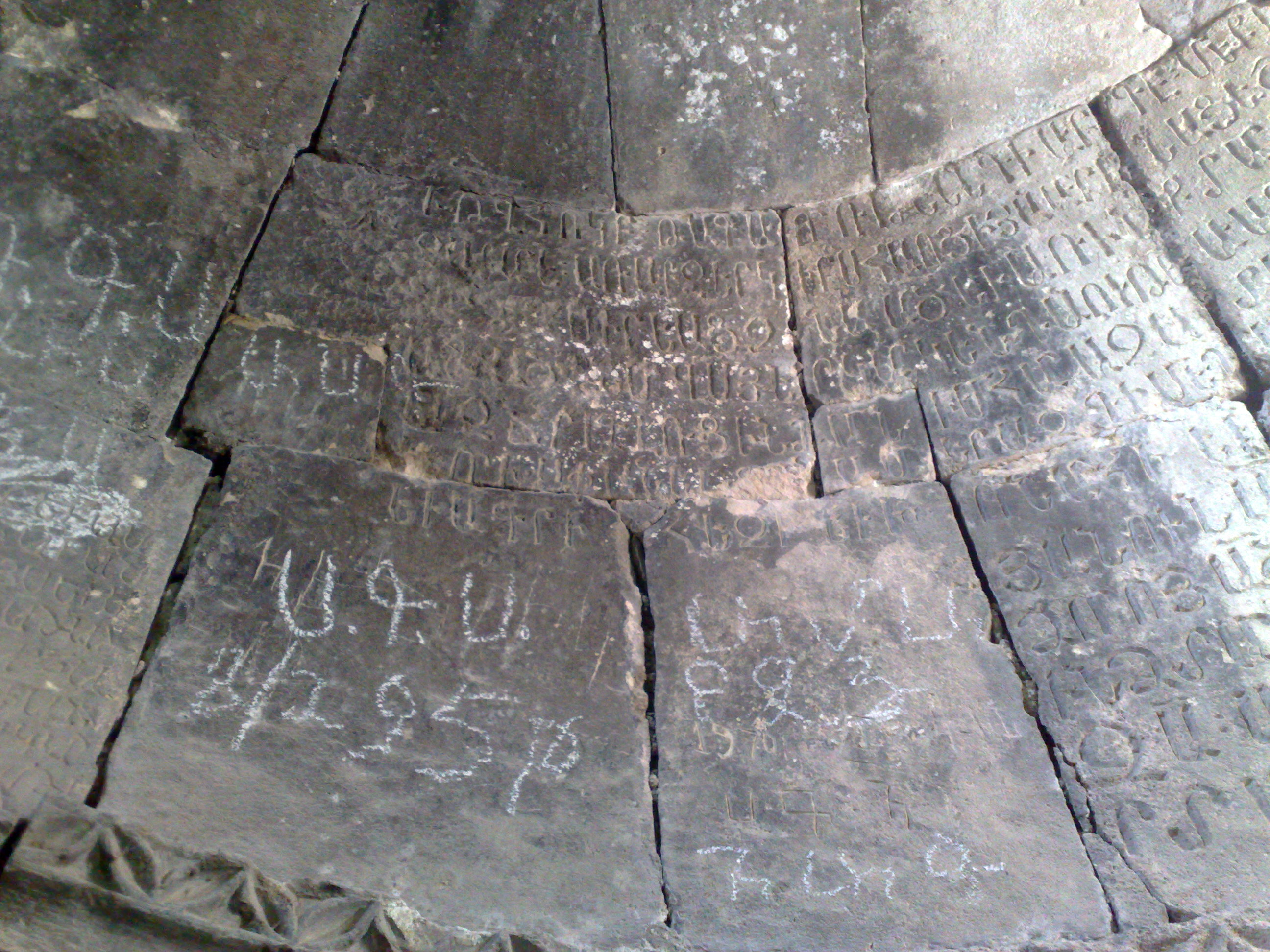 Chapel Trvisi/Crvisi (or Moro-Dzoro). Armenia-Tavush-Lusahovit. One of five photos of a wall, on which inscriptions on old armenian language. At the left on the right, i.e. №1,2,3,4,5